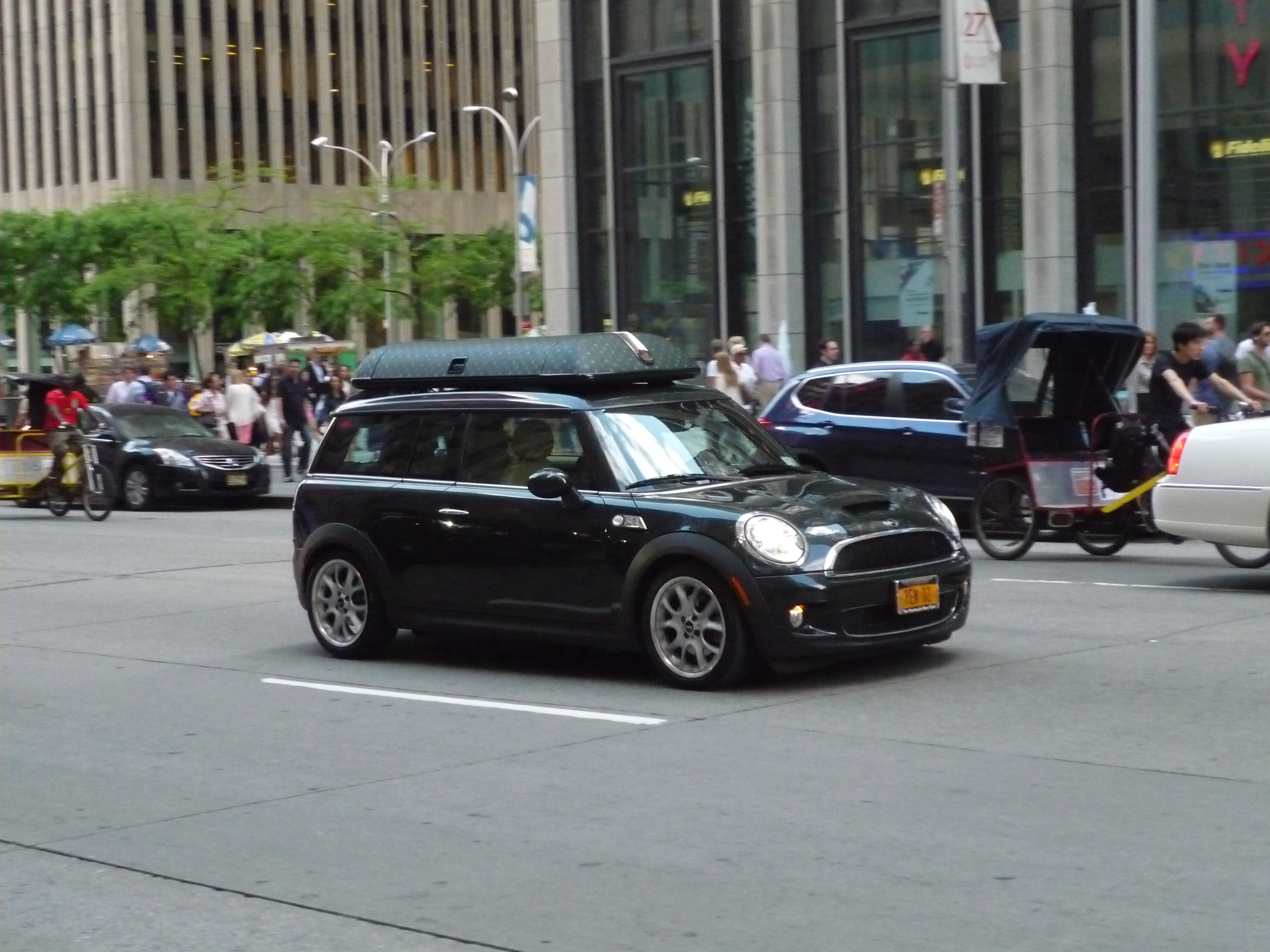 One of Mini's more versatile models in Manhattan.